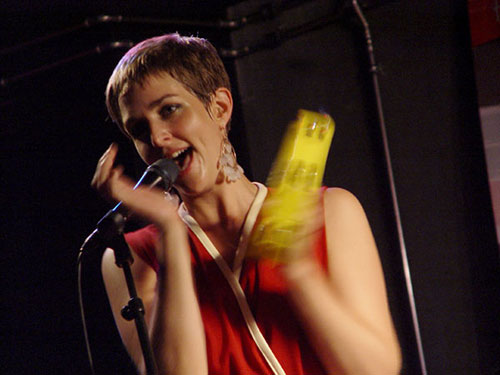 Ine Hoem performing at U JAZZ Aarhus, Denmark 2011